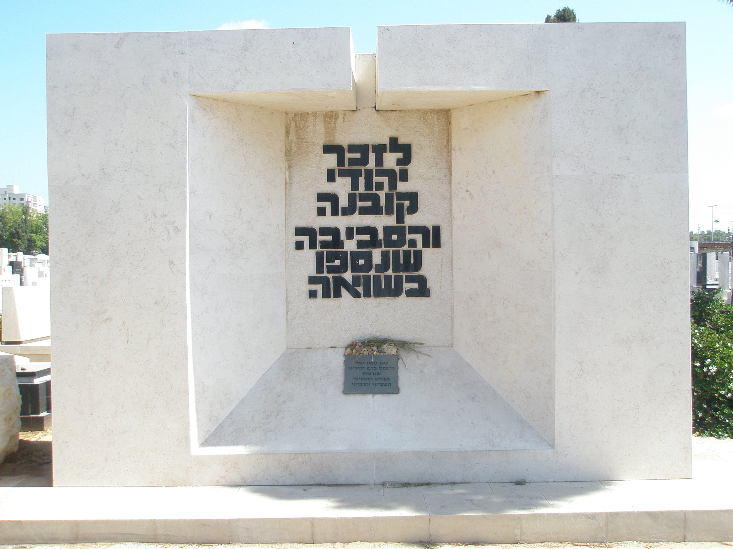 Kovna (Kaunas) memorial at Holon Cemetery.